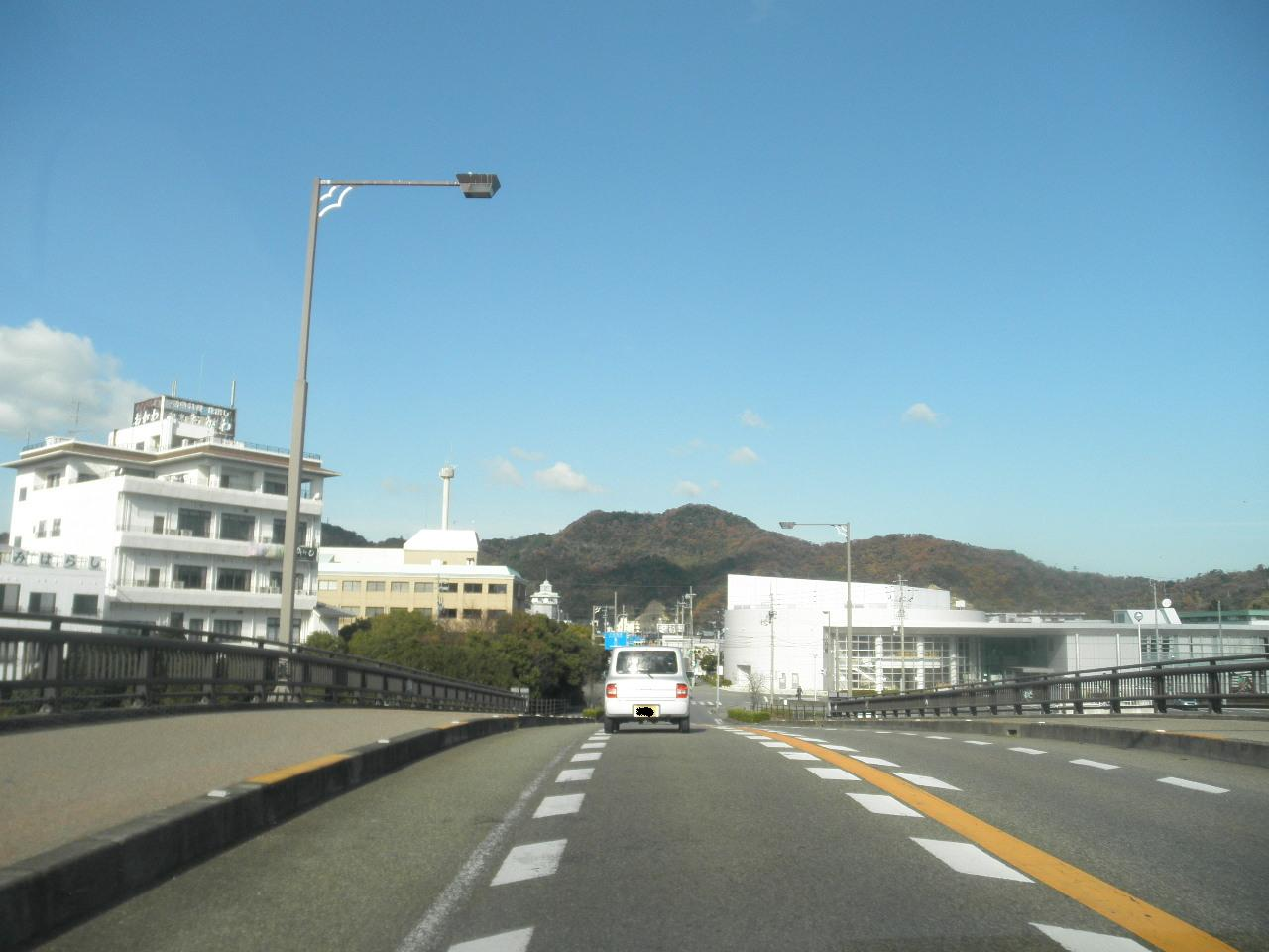 Komatsushimatown 外開 Komatsushimacity Tokushimapref Tokushimaprefectural road 178 Komatsushima port Minamikomatsushima station line